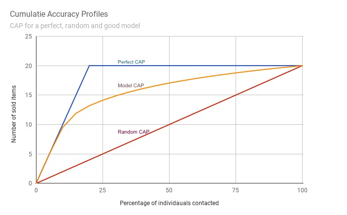 The CAP profiles for the perfect, good and random model predicting the buying customers from a pool of 100 individuals.